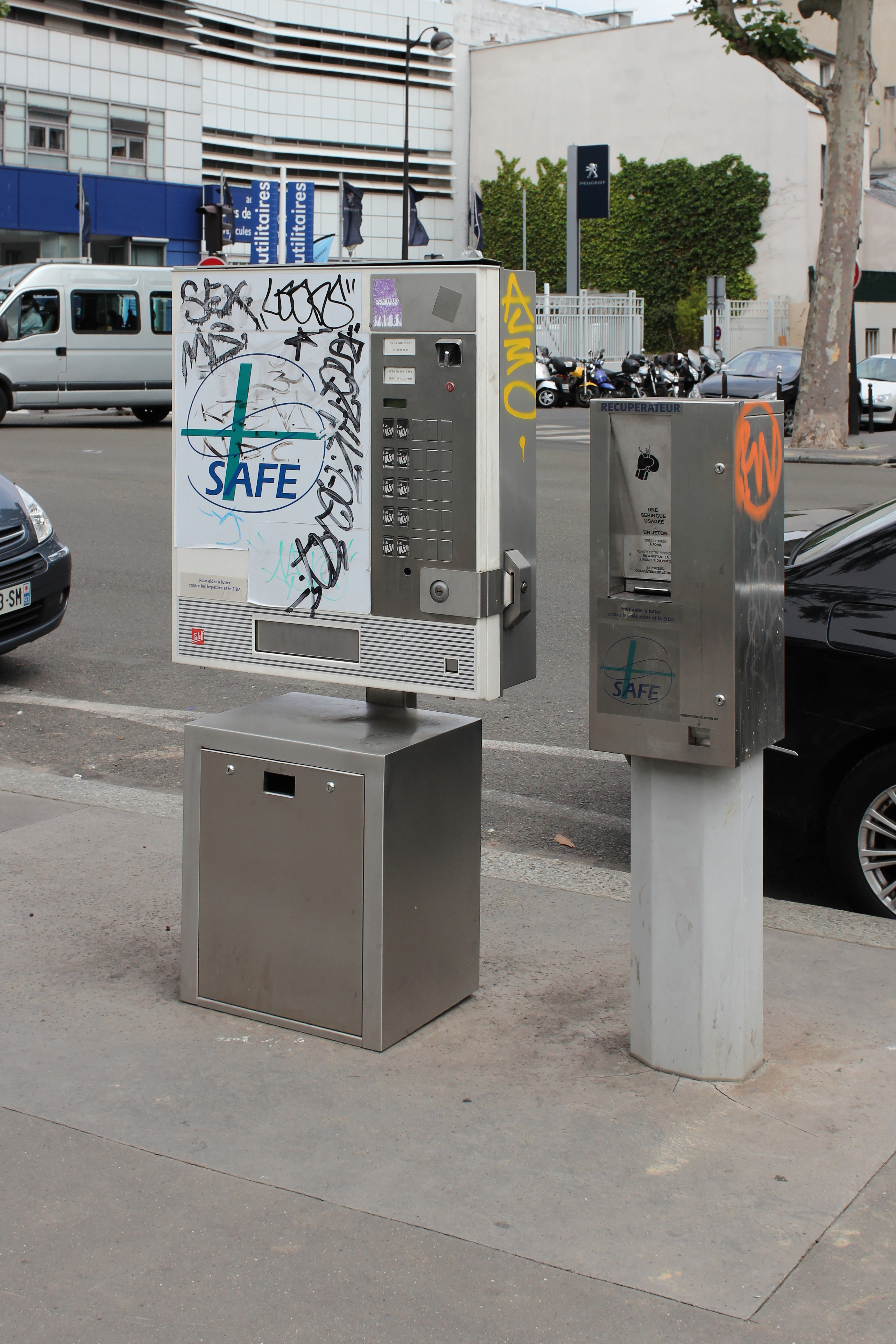 Needle exchange point located Rue du Faubourg-Saint-Martin, near Rue du Terrage. Automatic recovery of used syringes (right) and distribution of sterile syringes (left) of the SAFE Association.